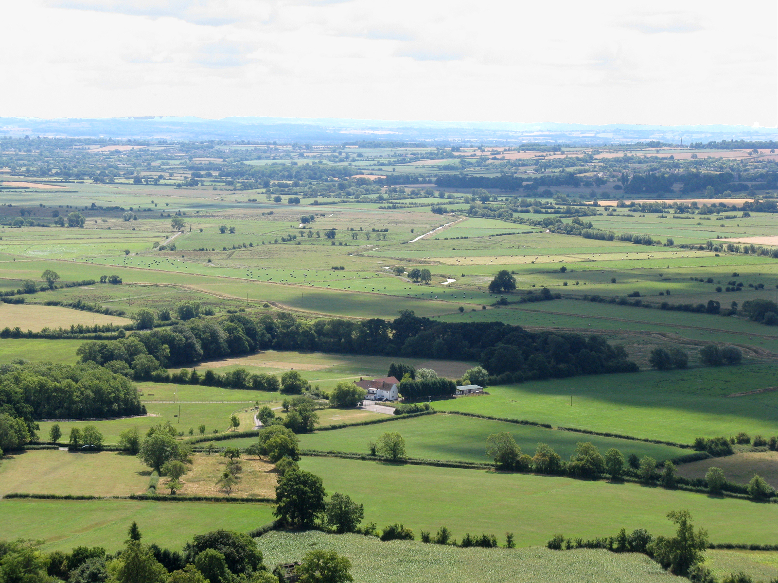 The Somerset Levels, looking south from the top of the 518 foot high Glastonbury Tor.